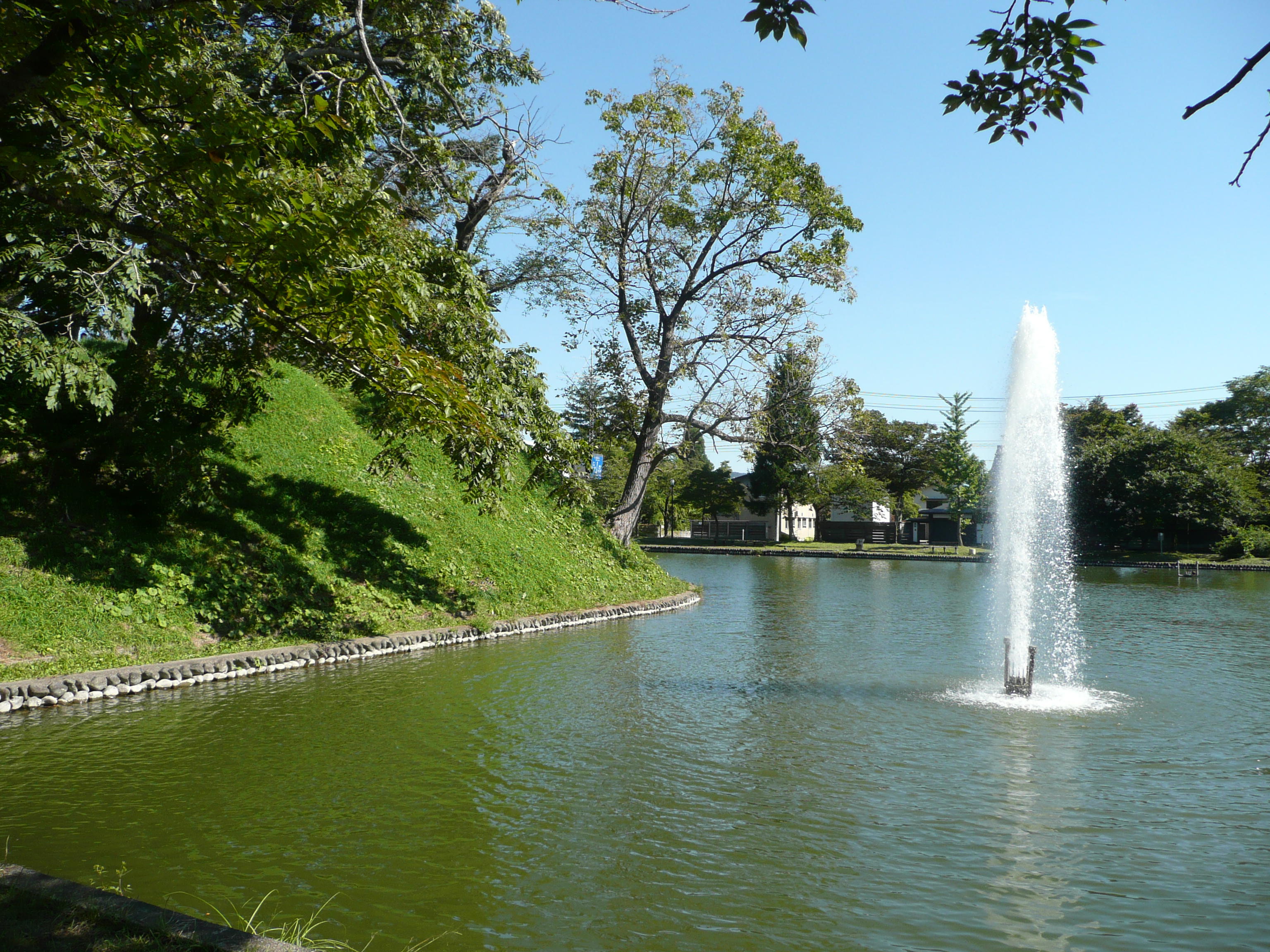 新庄城の水堀